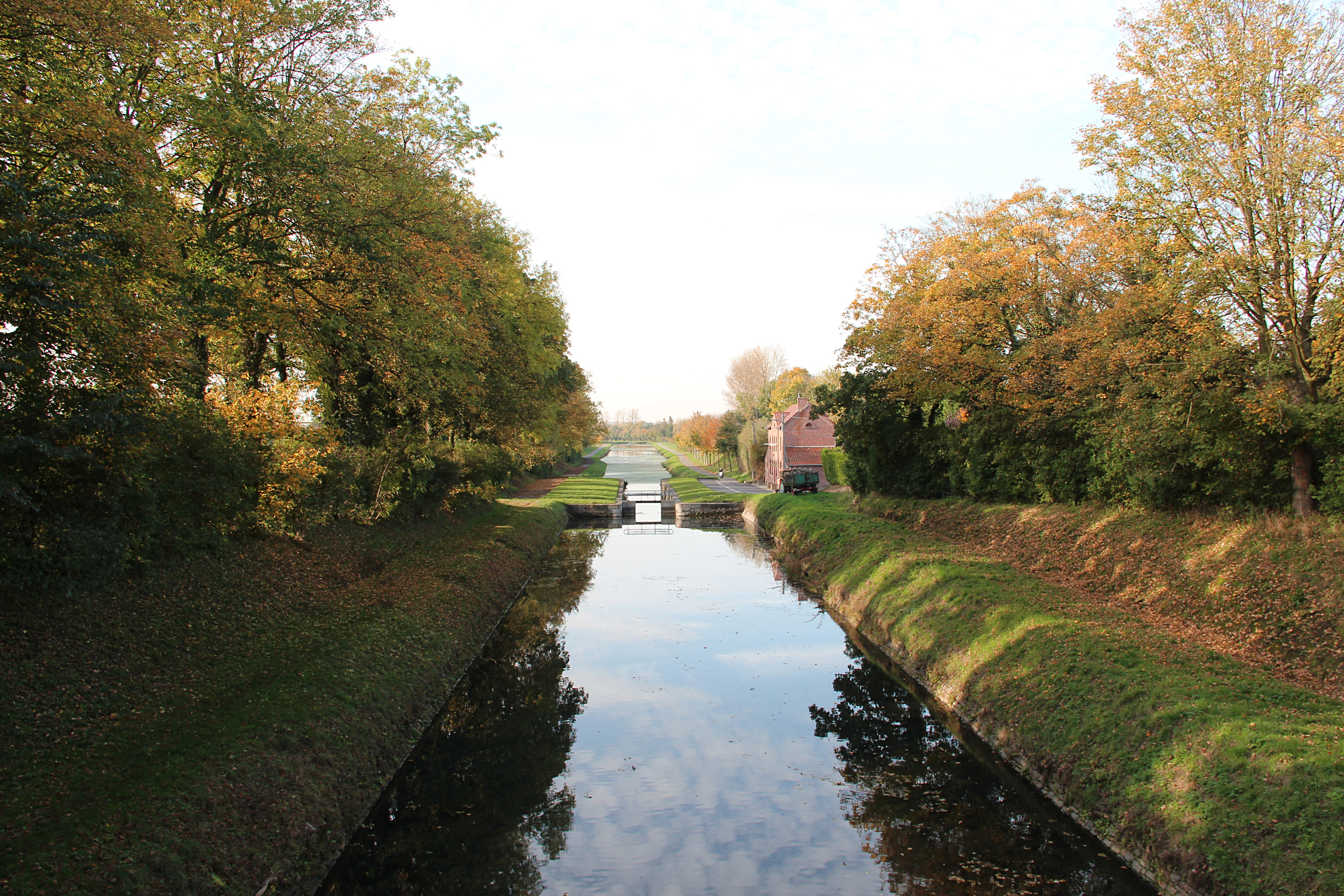 Maubray (Belgium), Pommerœul-Péronnes canal (1823-1826) lock and lock house downstream of the bridge "Pont Royal" in the hamlet of Morlies.